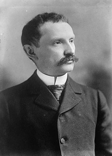 Edward C. Stokes, Governor of New Jersey, from 1905 to 1908